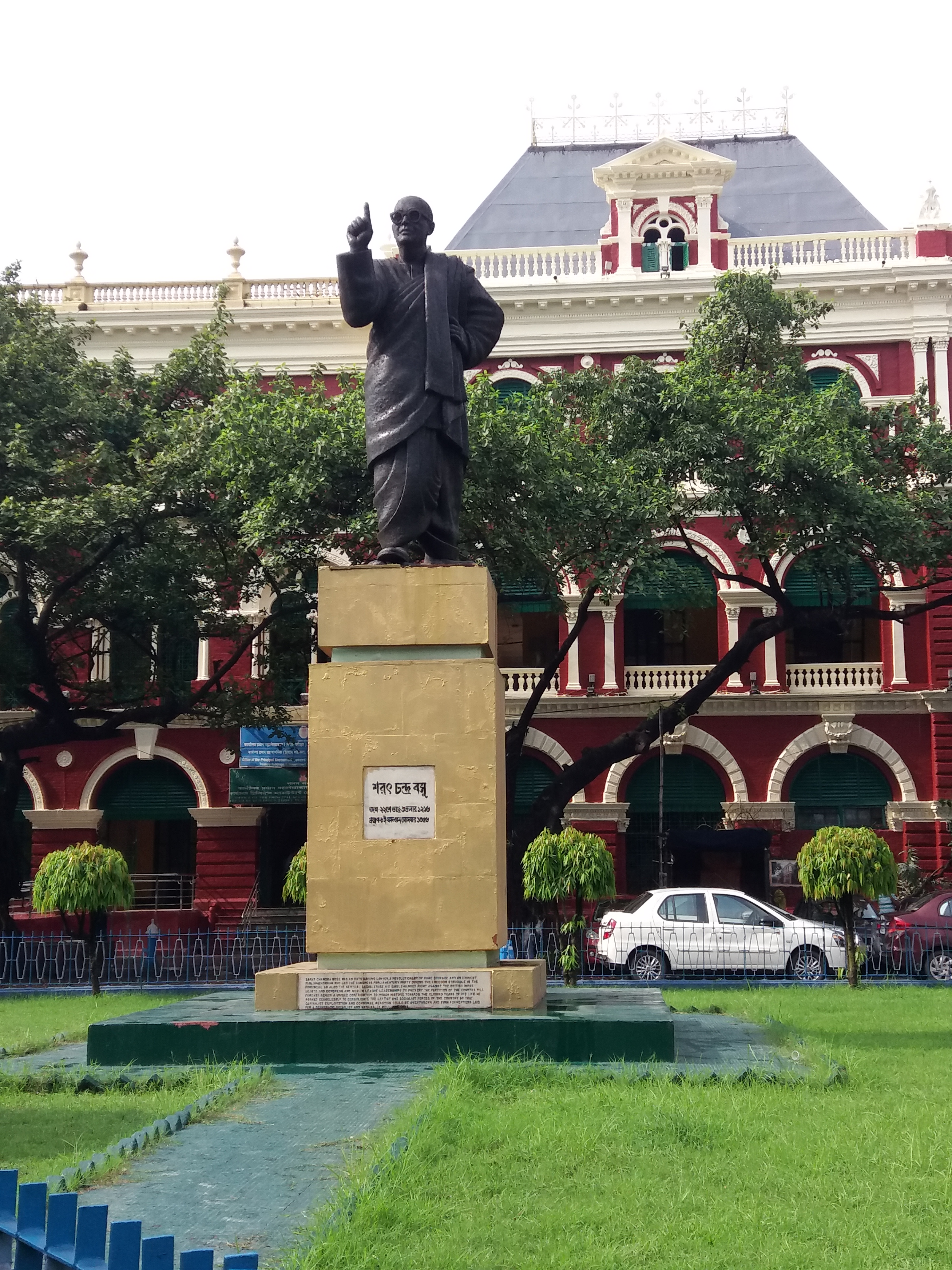 শরৎচন্দ্র বসু' র মূর্তি হাইকোর্ট, কলকাতা